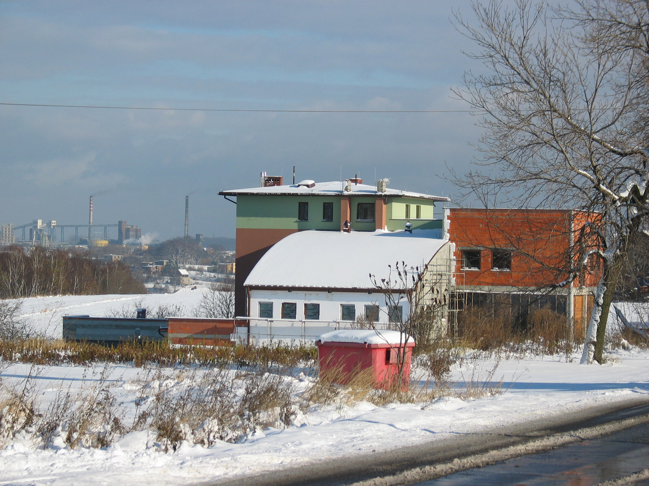 Budowa siedziby POL-EKO-APARATURA, widok z ul.Kokoszyckiej w kierunku dzielnicy Radlin II, listopad 2004.